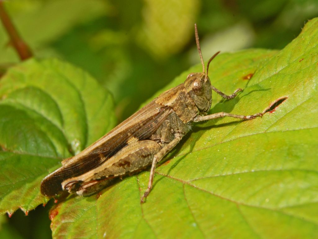 A. strepens